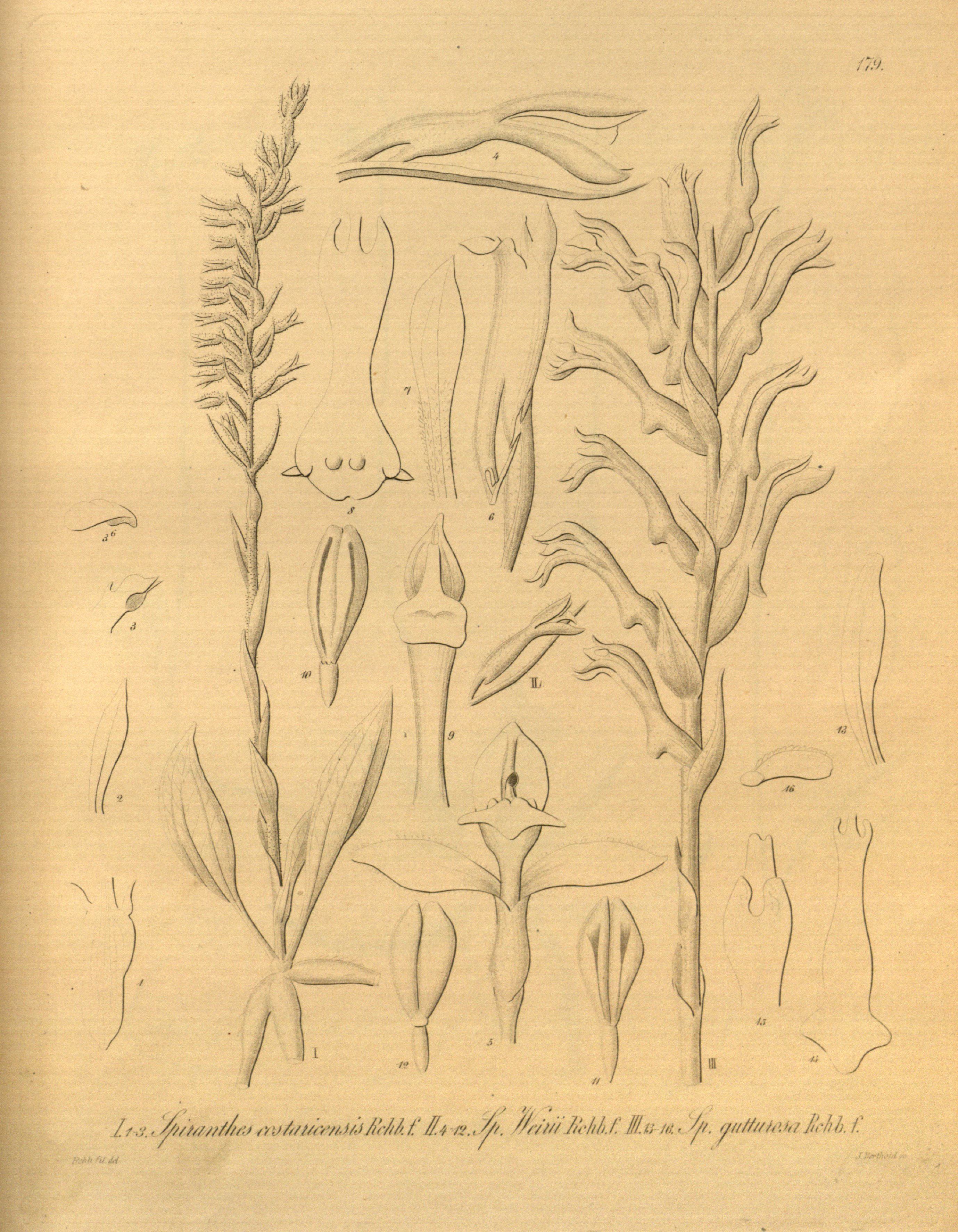 Illustrations of Beloglottis costaricensis ( syn.Spiranthes costaricensis) Pelexia laxa ( syn.Spiranthes weirii) Pelexia gutturosa ( syn.Spiranthes gutturosa)